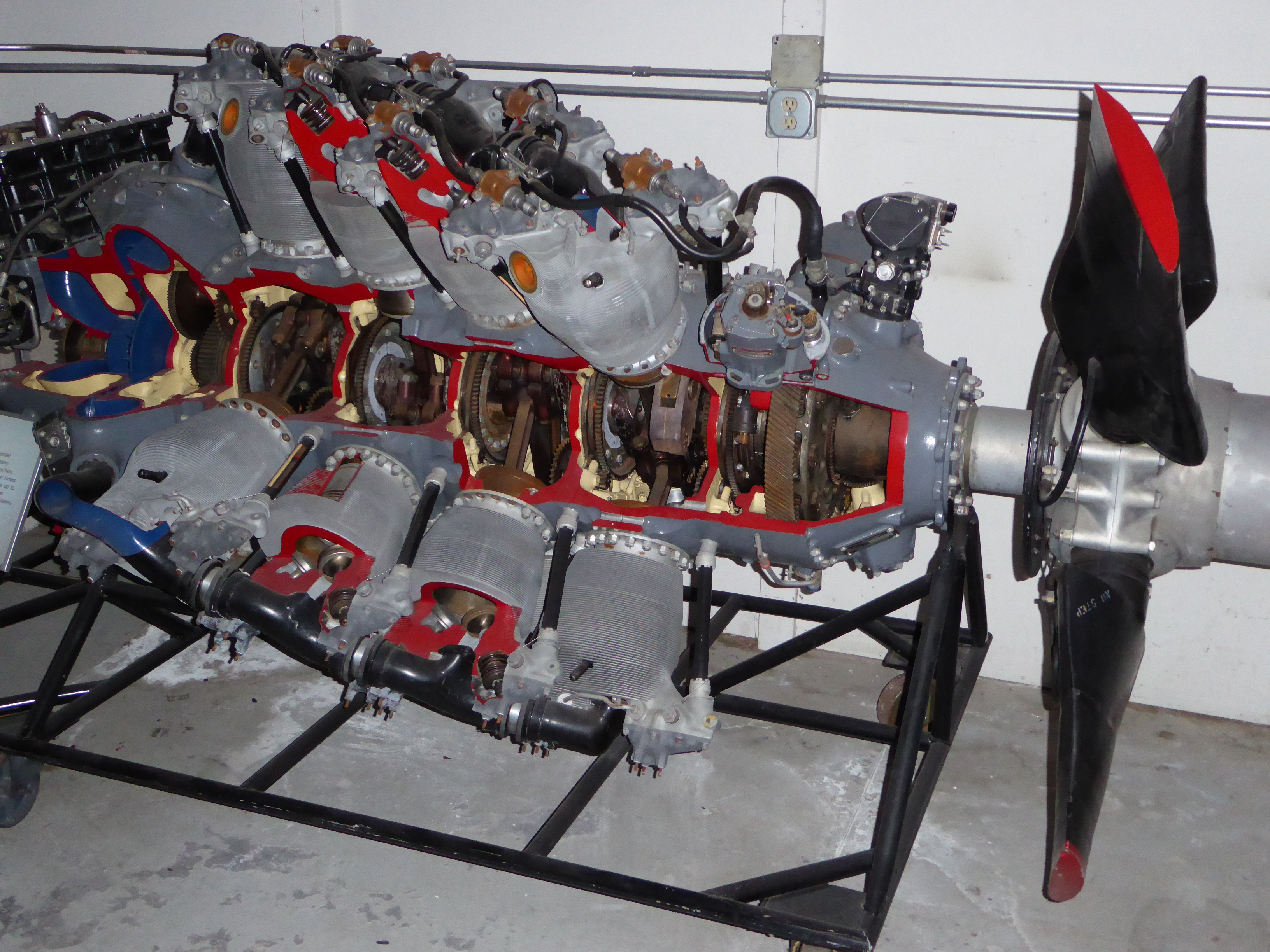 Pratt & Whitney R-4360 Wasp Major - Sectioned - San Diego Air & Space Museum annex Gillespie Field